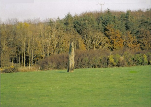 Bodewryd Standing Stone. One of the tallest Standing Stones on Anglesey,about 12 foot tall.